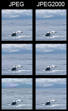 JPEG vs JPEG2000 comparation in sames ratios.